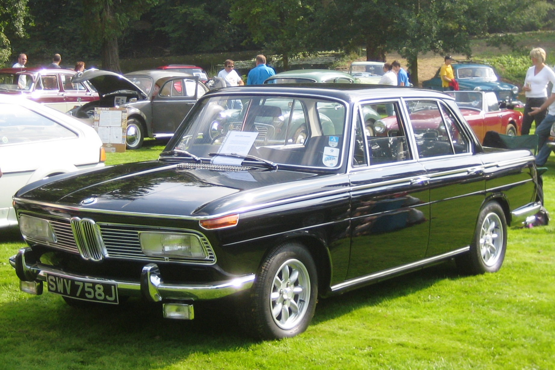 BMW 2000 sedan UK spec in north Essex